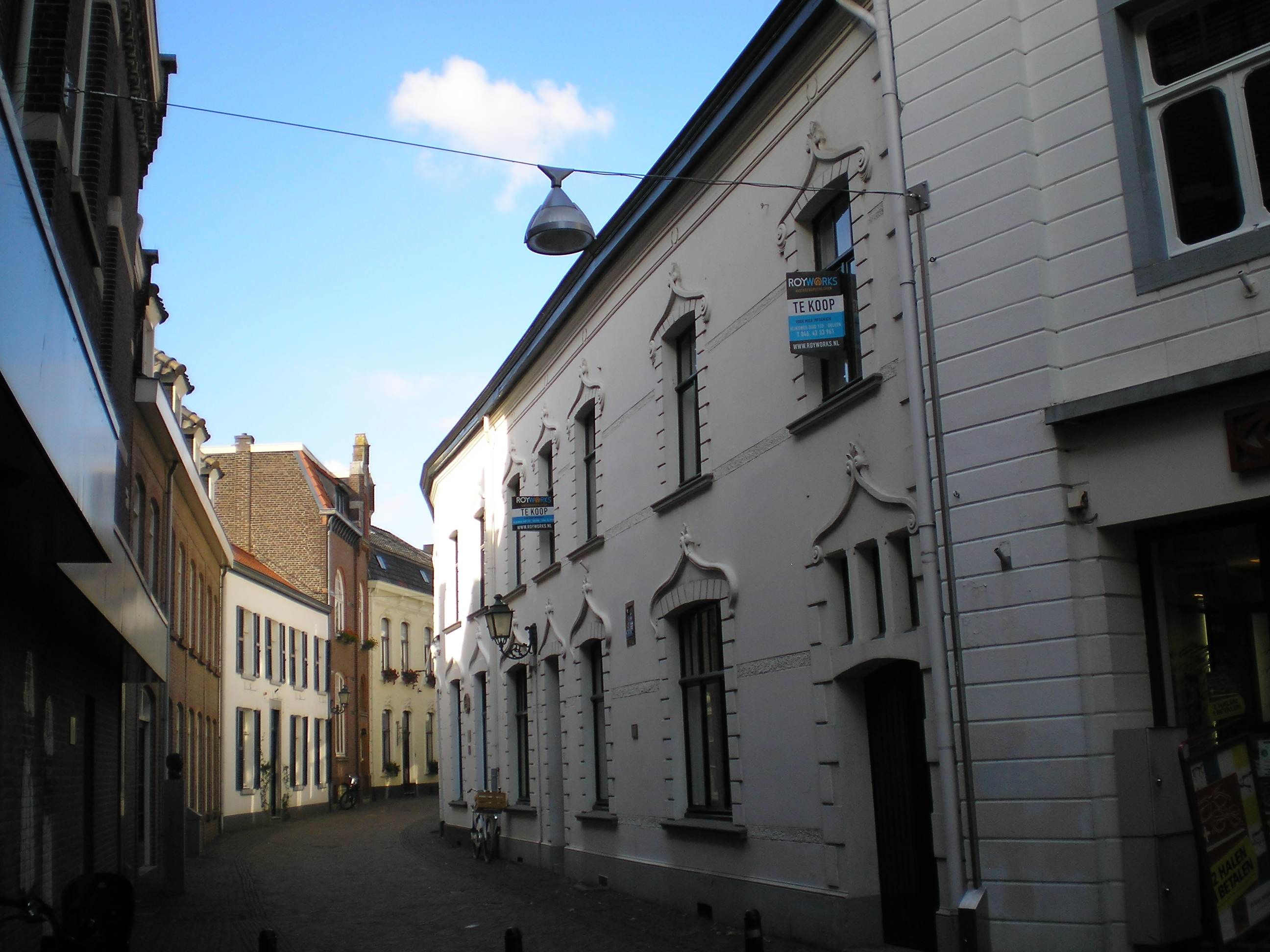 Former home of Toon Hermans in Begijnenhofstraat 5 in Sittard in the Netherlands